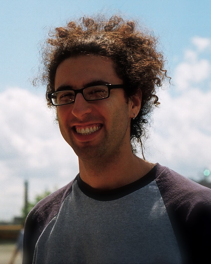 Zach Sherwin in 2009, when he performed as MC Mr. Napkins (image taken from Flickr)